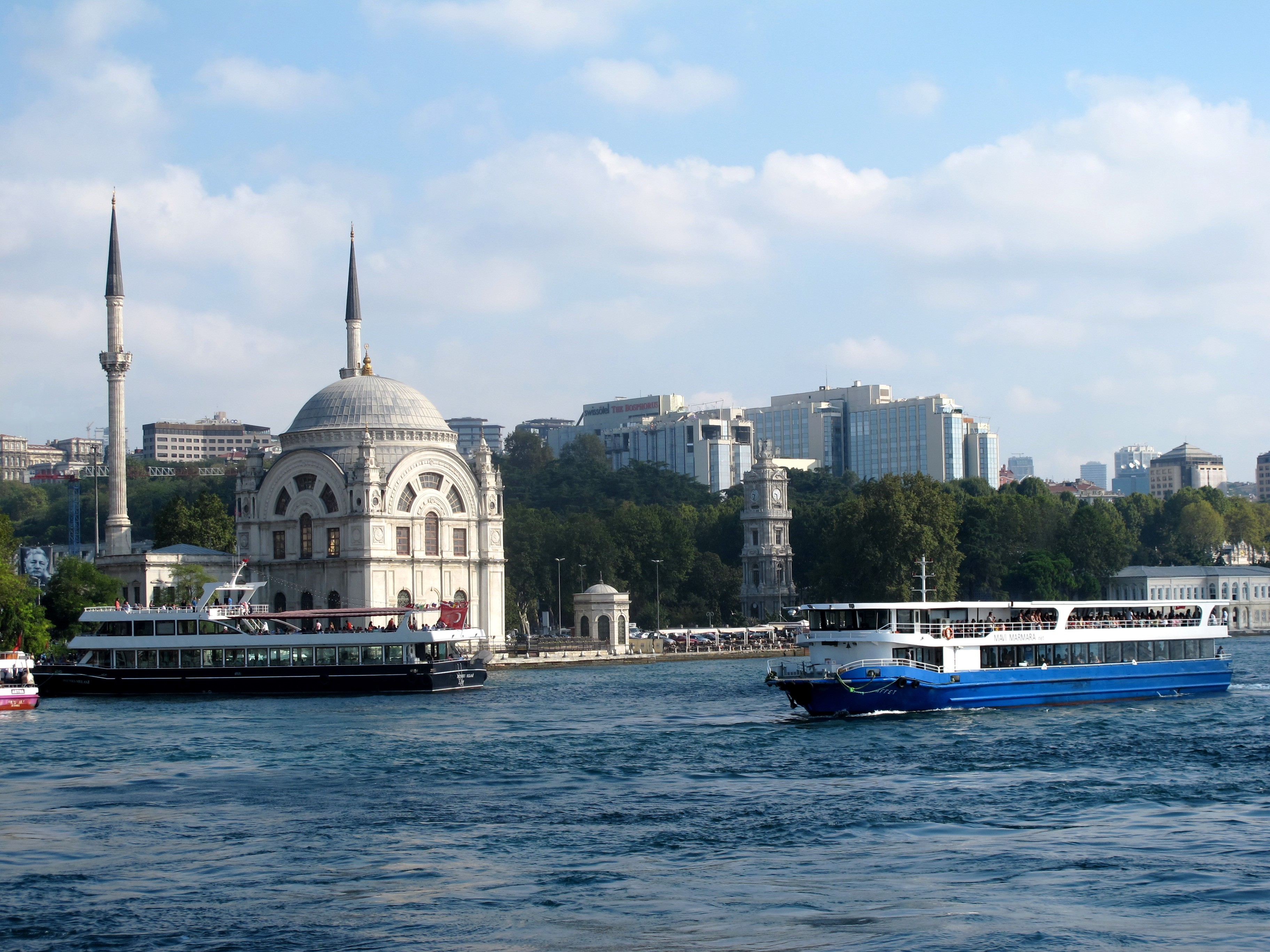 The view of Dolmabahçe Mosque in the left of picture